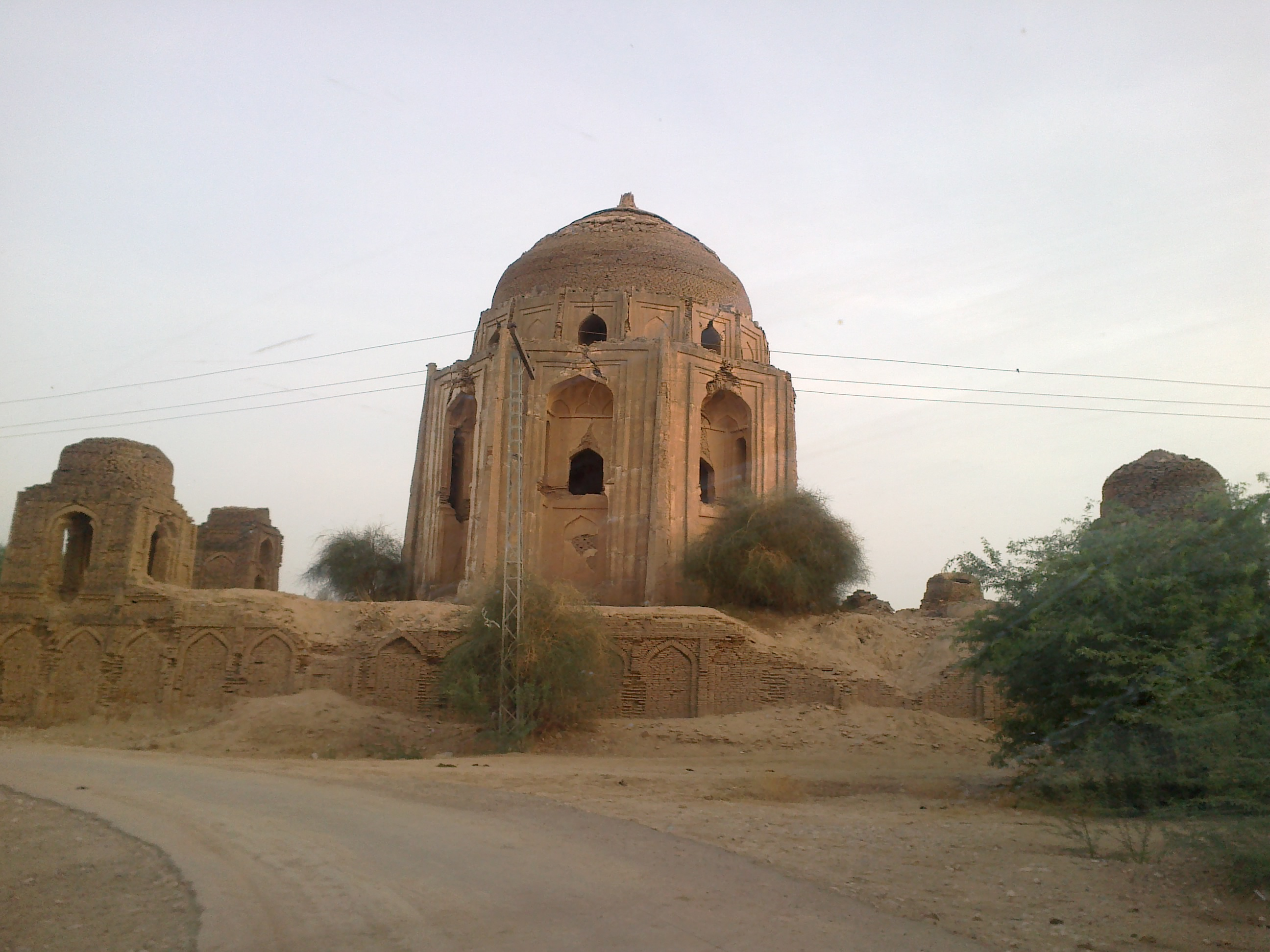 this is the tomb of khan kalat at bhag bolan.